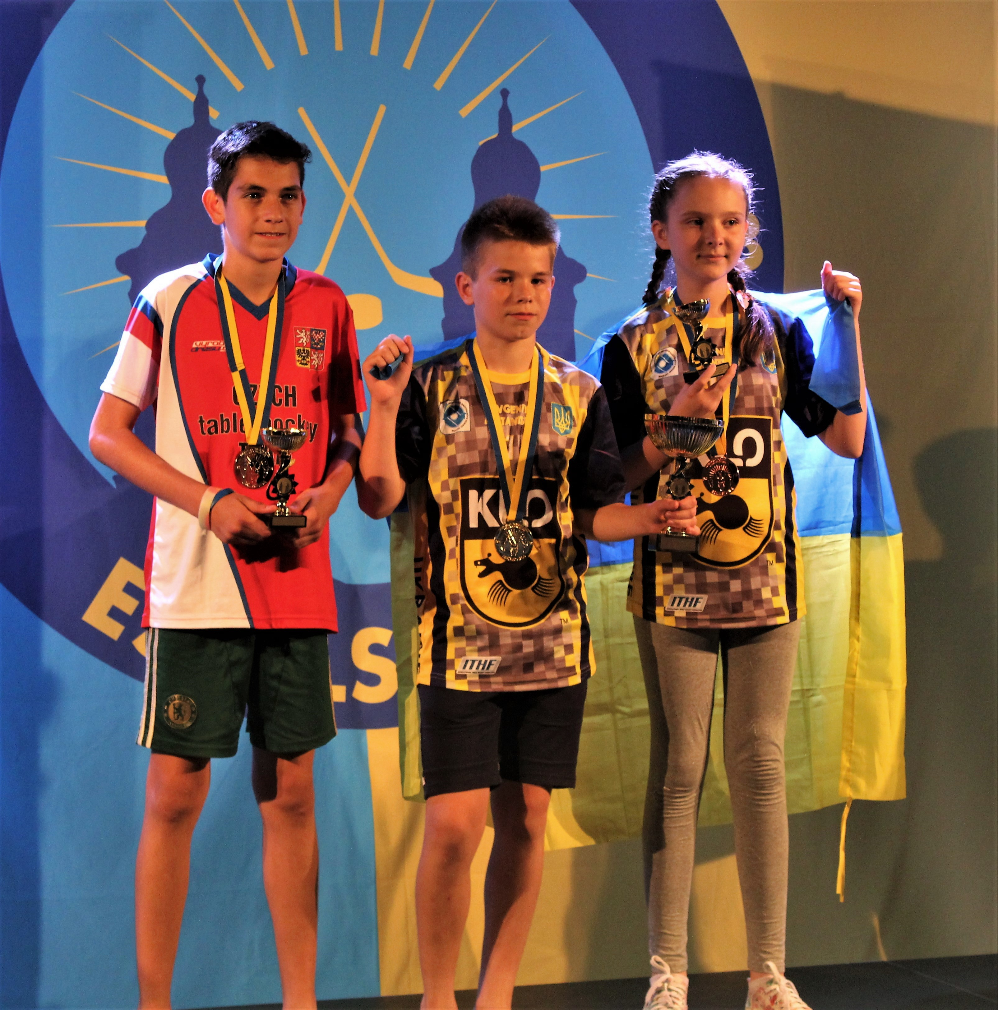 ITHF Table hockey European Championship-2018 in Eskilstuna, kids winners- Jakub Matysek, Evgeniy Matantsev, Hanna Ivantsova